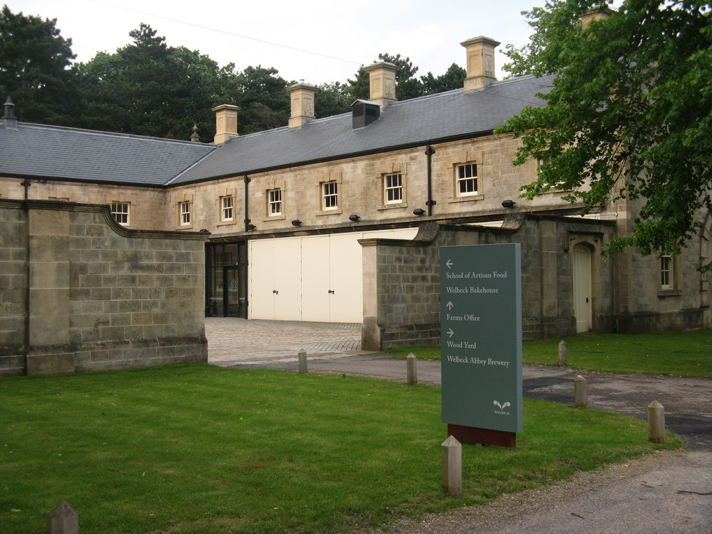 School of Artisan Food : The School of Artisan Food's location at Welbeck Abbey